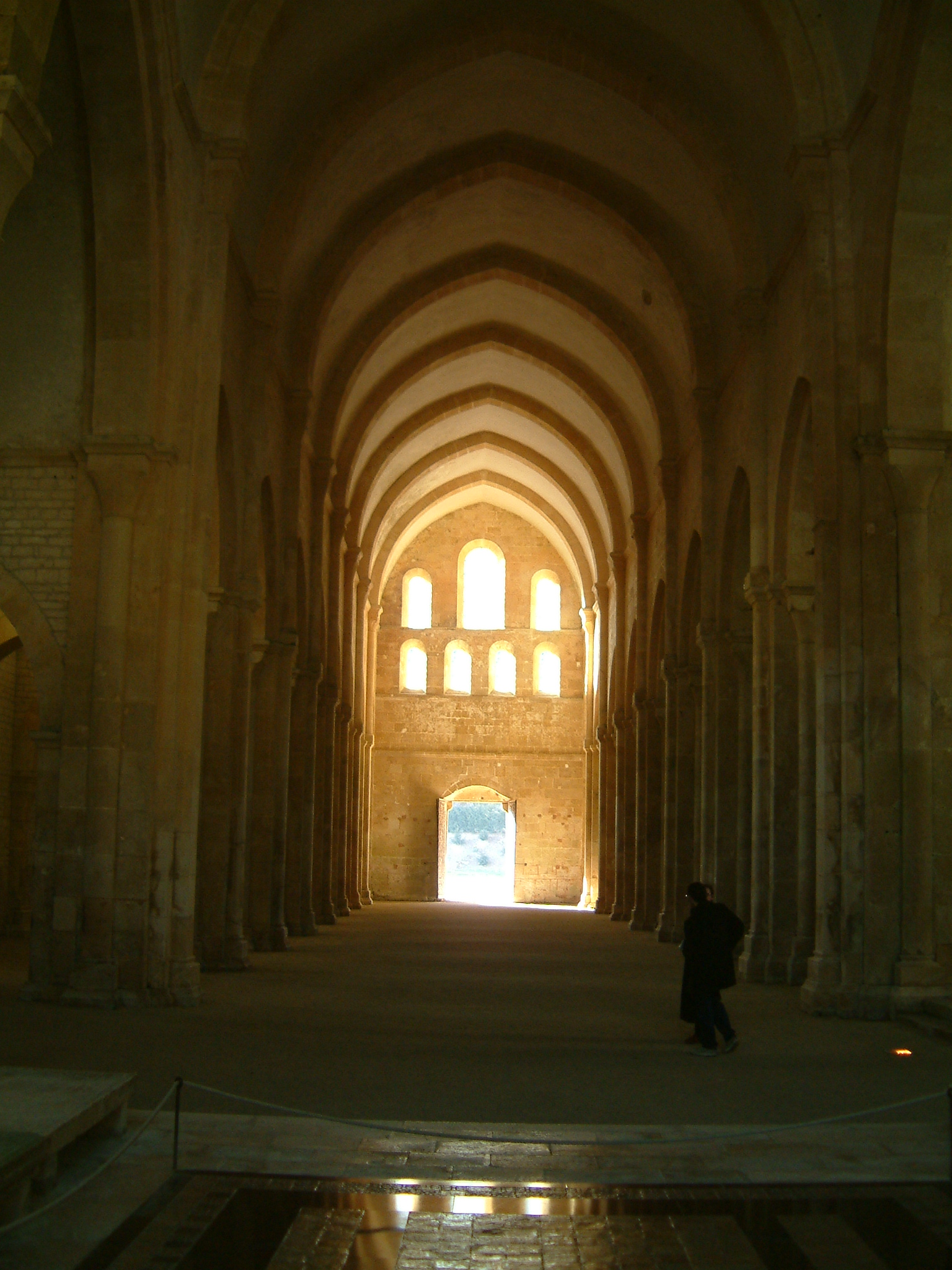 Pointed barrel vault, arch bands, abbaye of Fontenay, Burgundy, France.